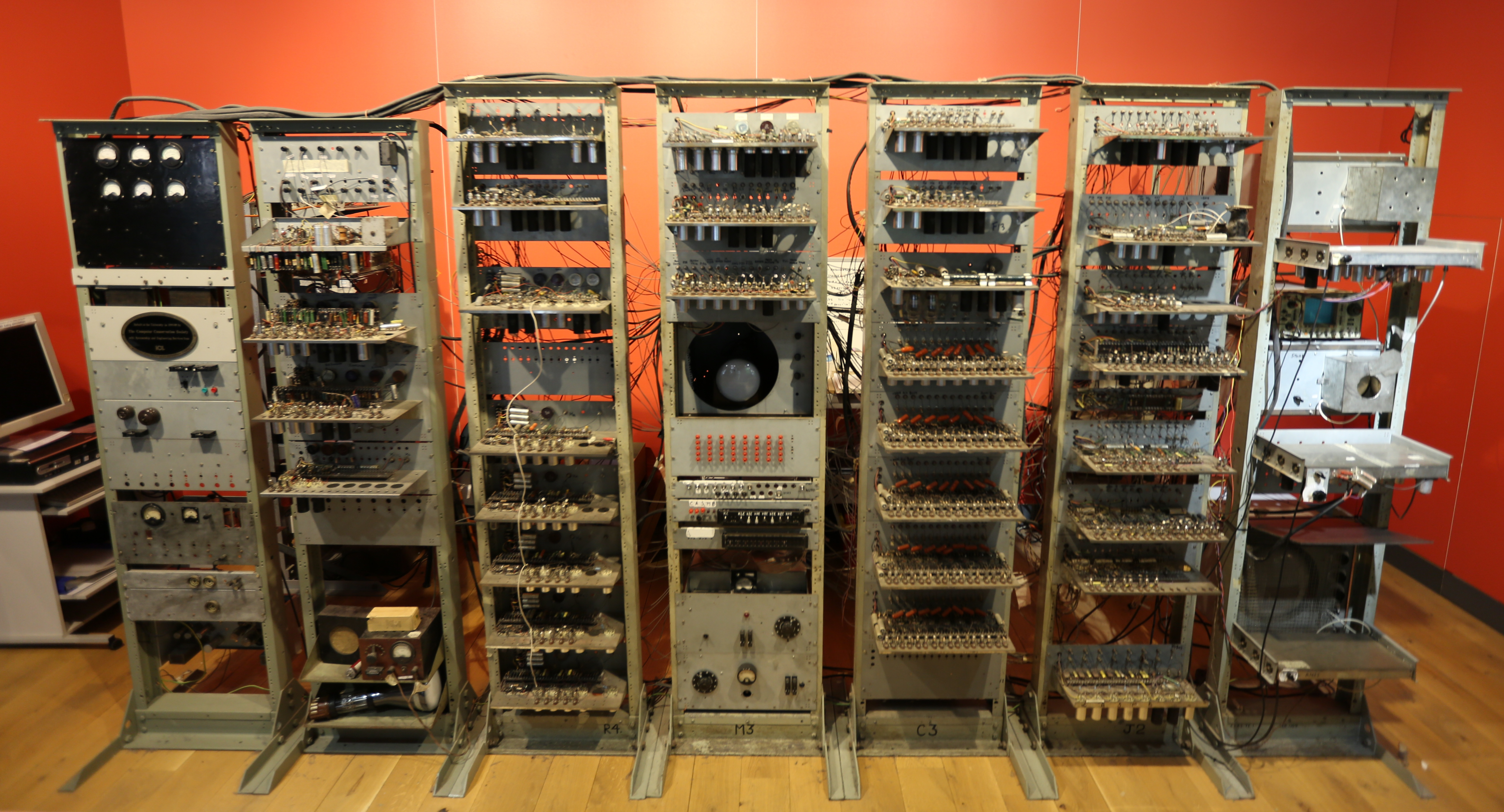 Photo of the recreation of the Manchester Small-Scale Experimental Machine (AKA the manchester baby) in the museum of science and industry